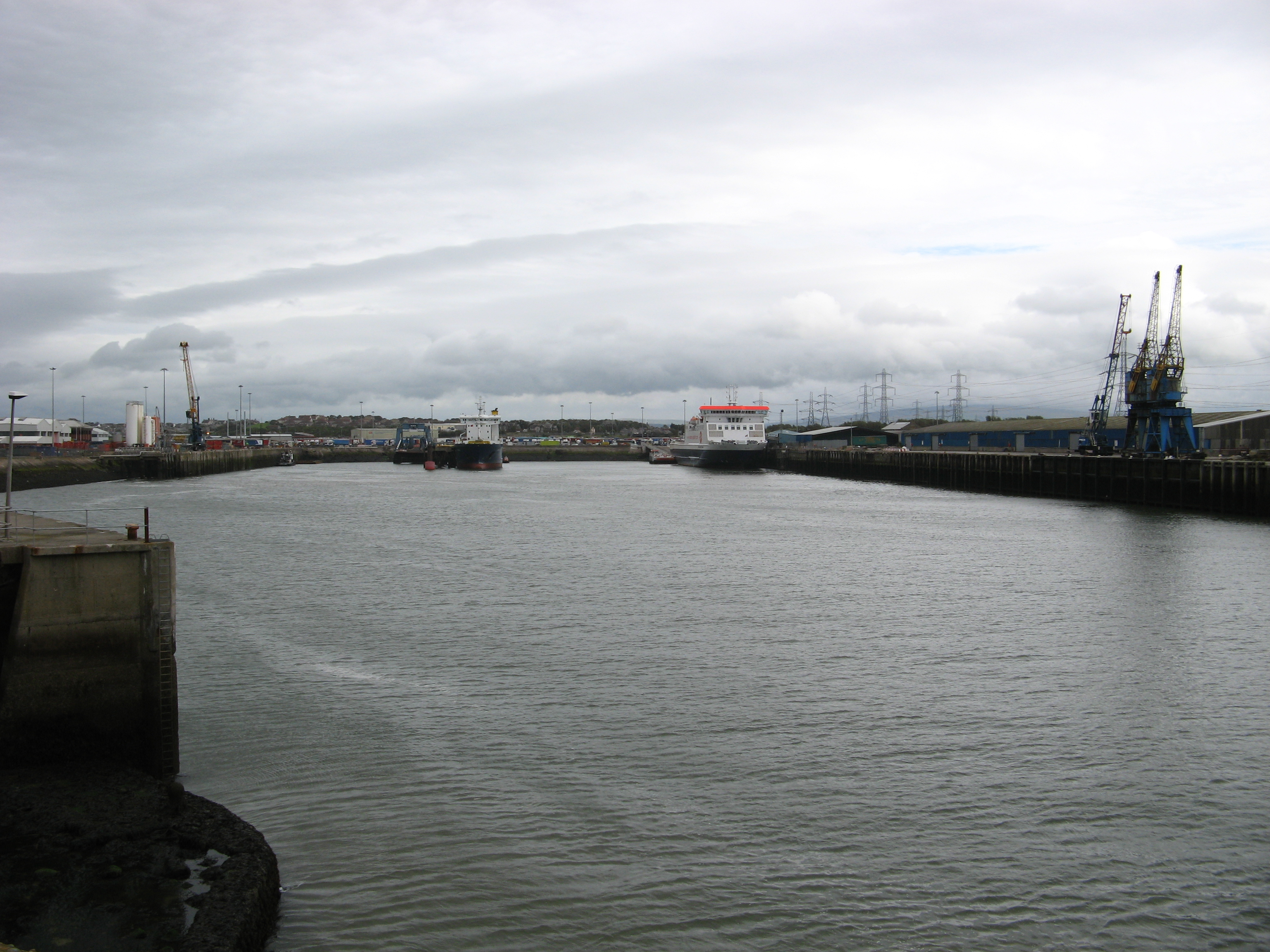 Heysham Harbour, from harbour entrance; Lancashire, England. Isle of Man Steam Packet Company ferry Ben-my-Chree is on the right at the South Quay. To the left the North Wharf is in the distance, and a corner of the Fish Quay can be seen closeby.